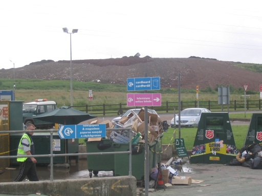 Newport City Landfill Site Newport City Council’s landfill site at Docks Way is over 40 years old. It is estimated to have a future life of 10 years. It's no longer land "fill" but land "building"!